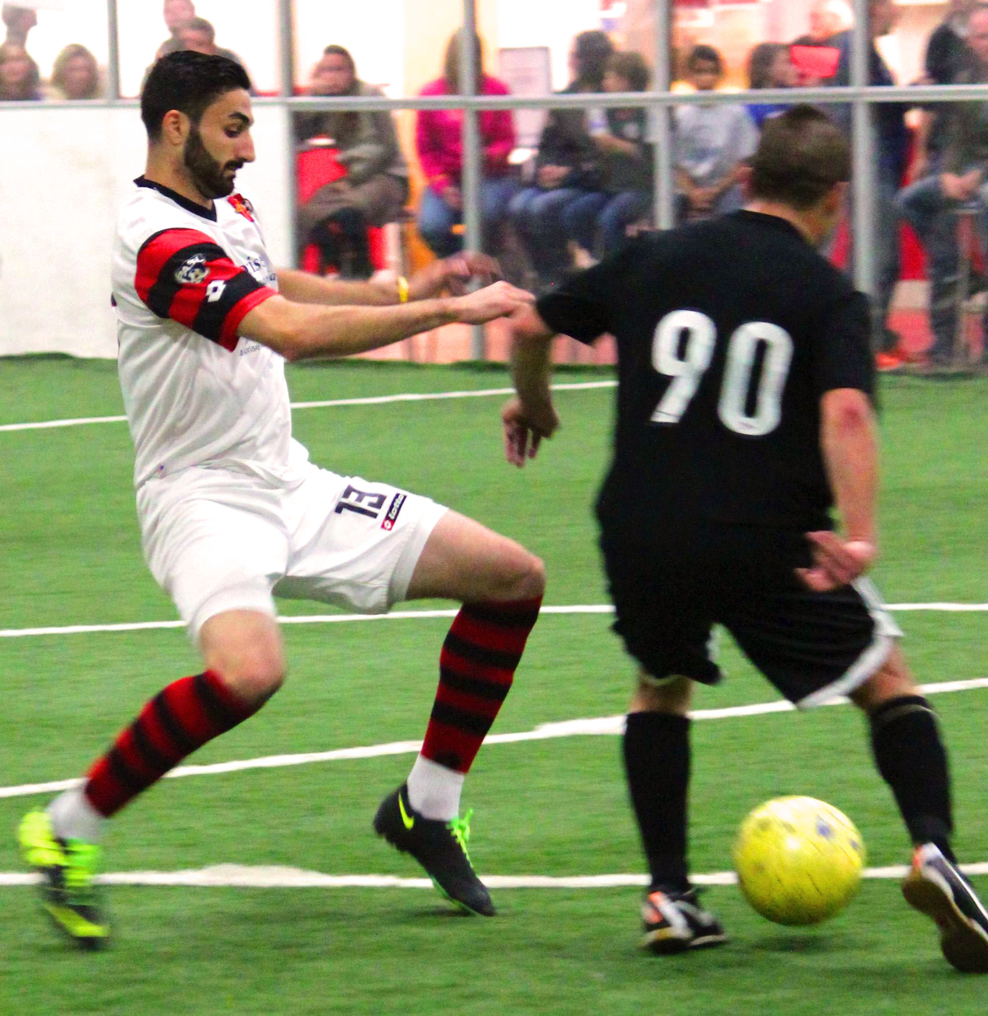 Harrisburg Heat